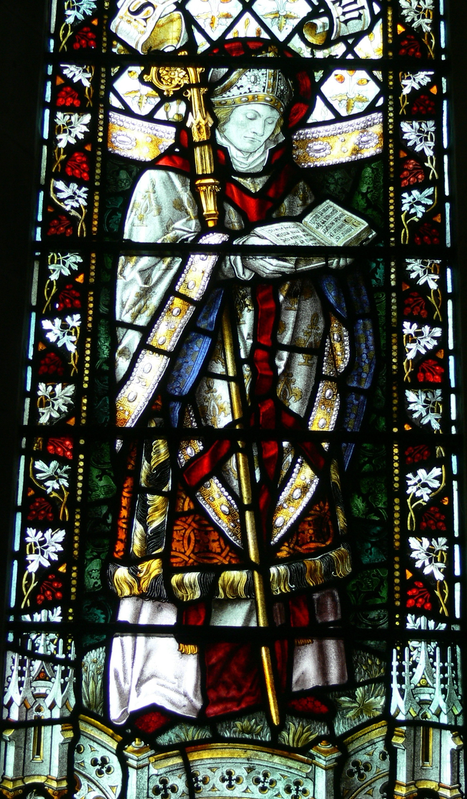 St.David's ( Wales ). Cathedral: Thomas Becket chapel - Stained glass window ( 1909 ) by Shrigley & Hunt showing Saint Asaph.